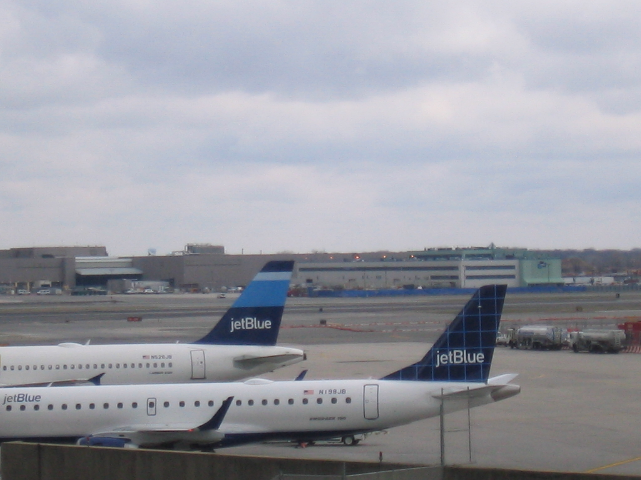 JetBlue aircraft parked at their gates.